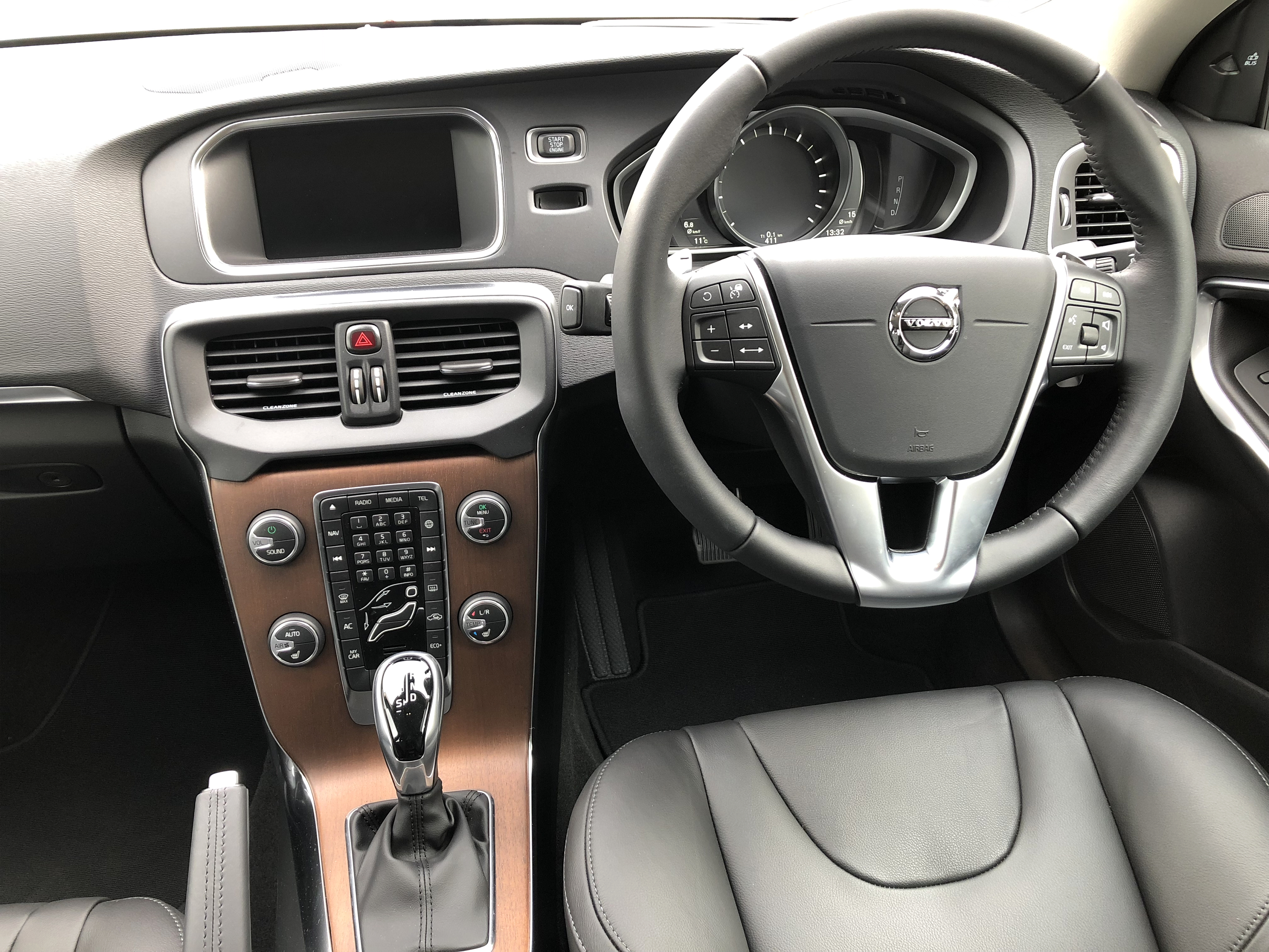 VOLVO V40 T3 Inscription INTERIOR(JPN).Photographed in Japan.